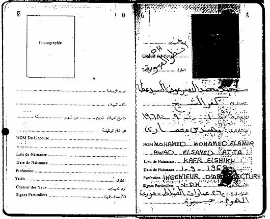 Egyptian Passport of Mohamed Atta